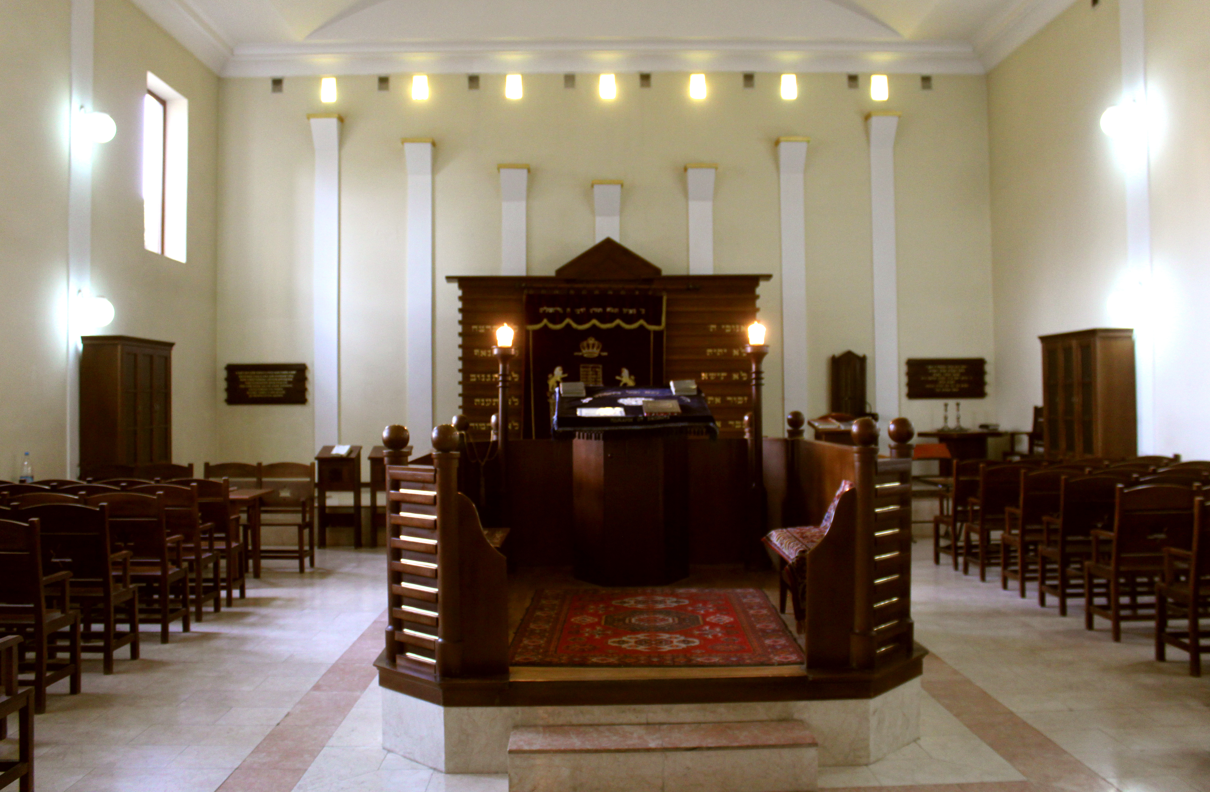 Interior of Sinagogue of Mountain Jews in Baku